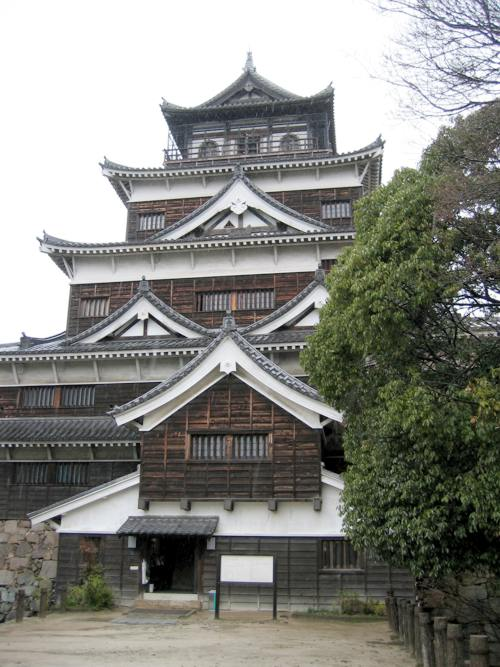 Hiroshima Castle, Japan. Photograph taken by Michael Reeve, 22 March 2004. Zamek Hirosimski, Hirosima, Japonia